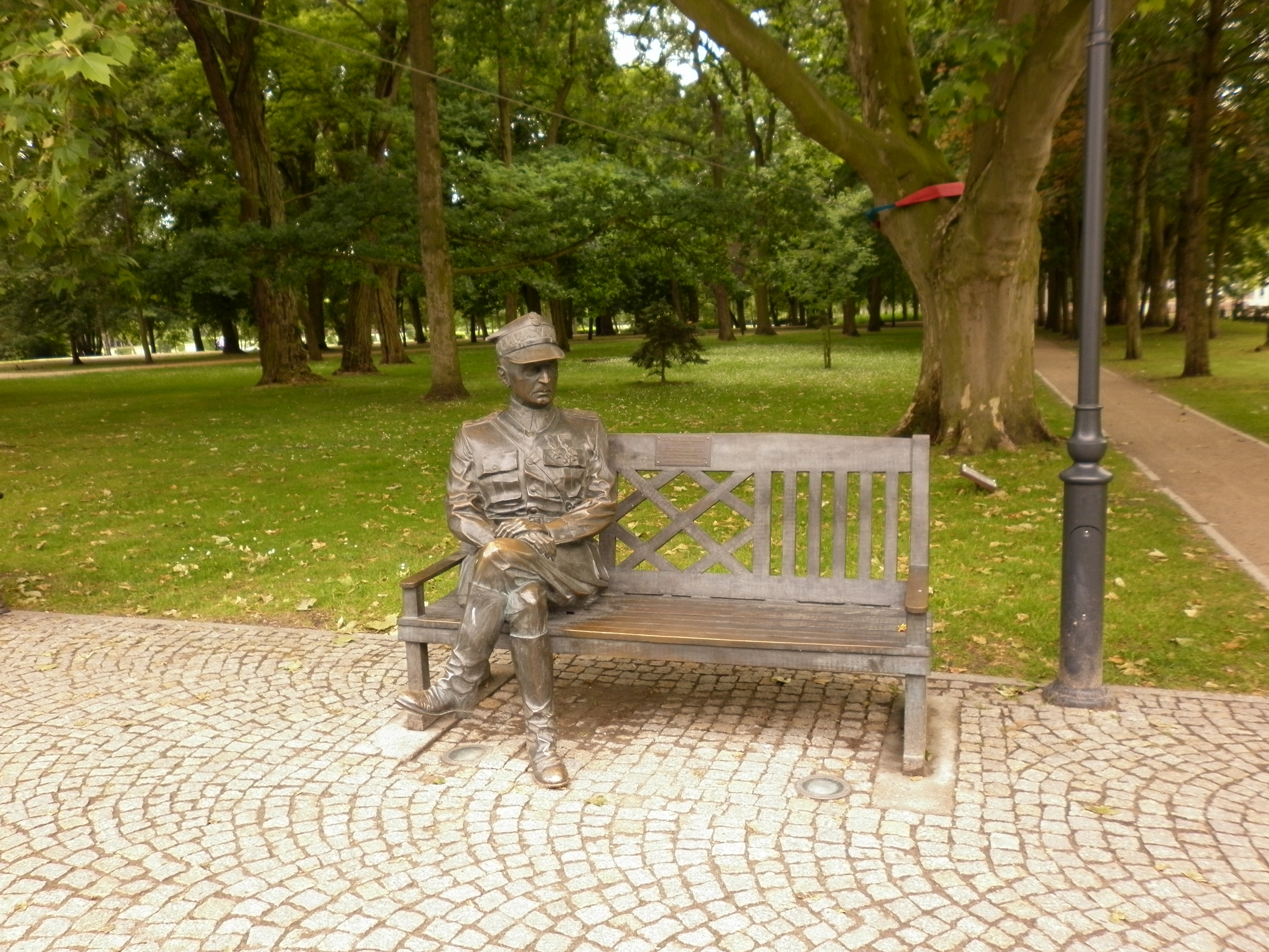 General Sikorski monumment in Inowroclaw